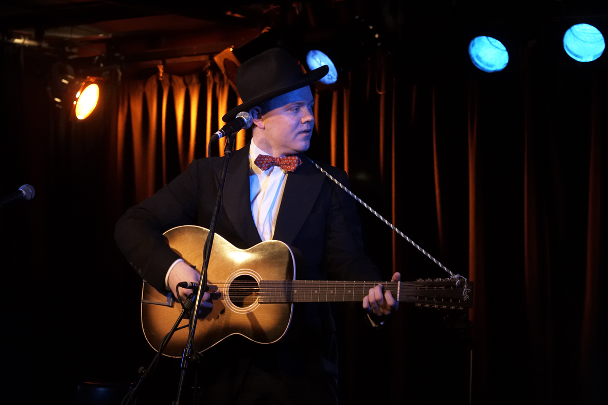 C.W. Stoneking at The Basement. Sydney, Australia